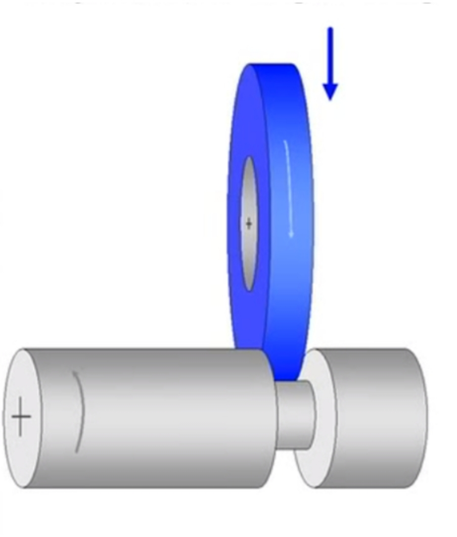 plunge grinding